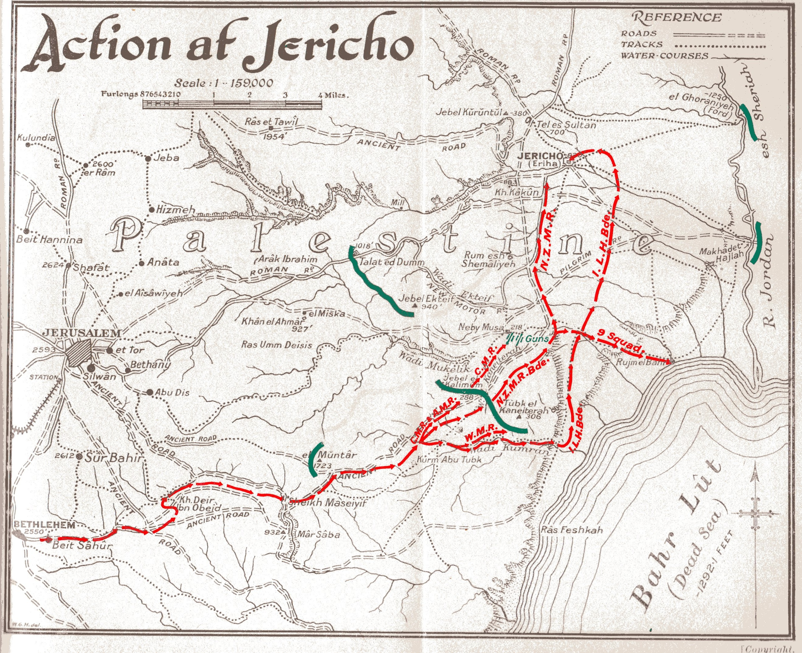 Description: Map of Jericho operations February 1918.